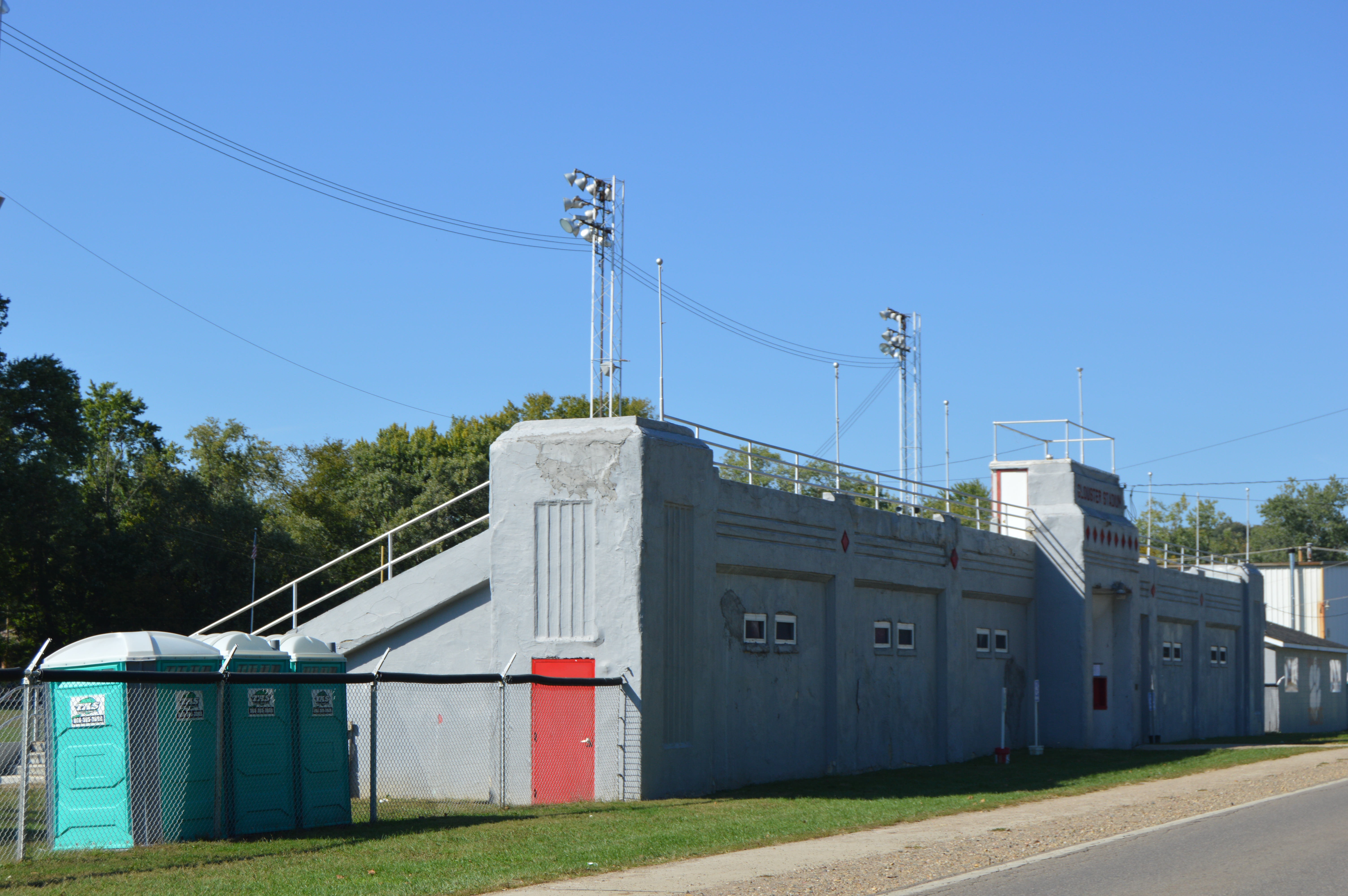 Roadside view of Glouster Stadium (football stadium for Trimble High School), located along S. High Street (State Route 13) in Glouster, Ohio, United States. It was built in 1940 by the Works Progress Administration.